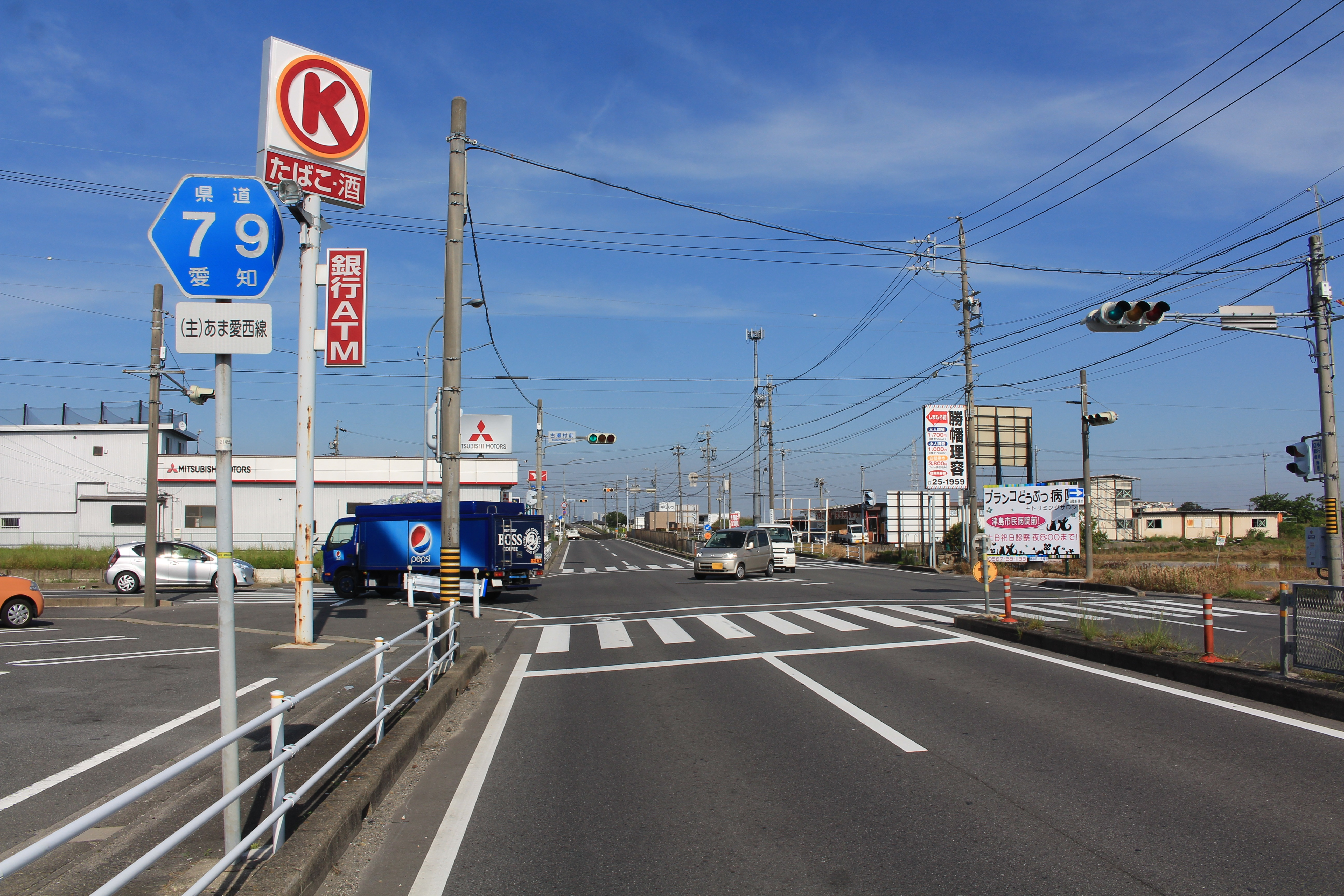 Aichi Prefectural Road Route 79 in Aisai, Aichi prefecture, Japan.